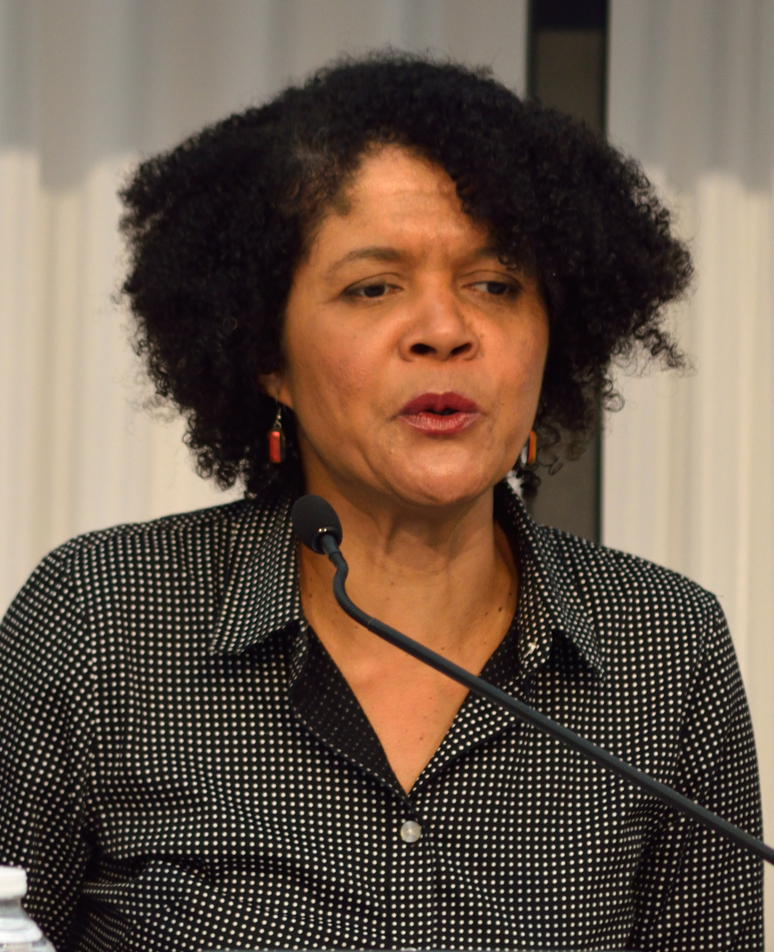 Chi Onwurah at the 2016 Labour Party Conference in Liverpool, lead speaker at the New Statesman "A Cybersafe UK?" fringe meeting outside the security zone, sponsored by Raytheon.